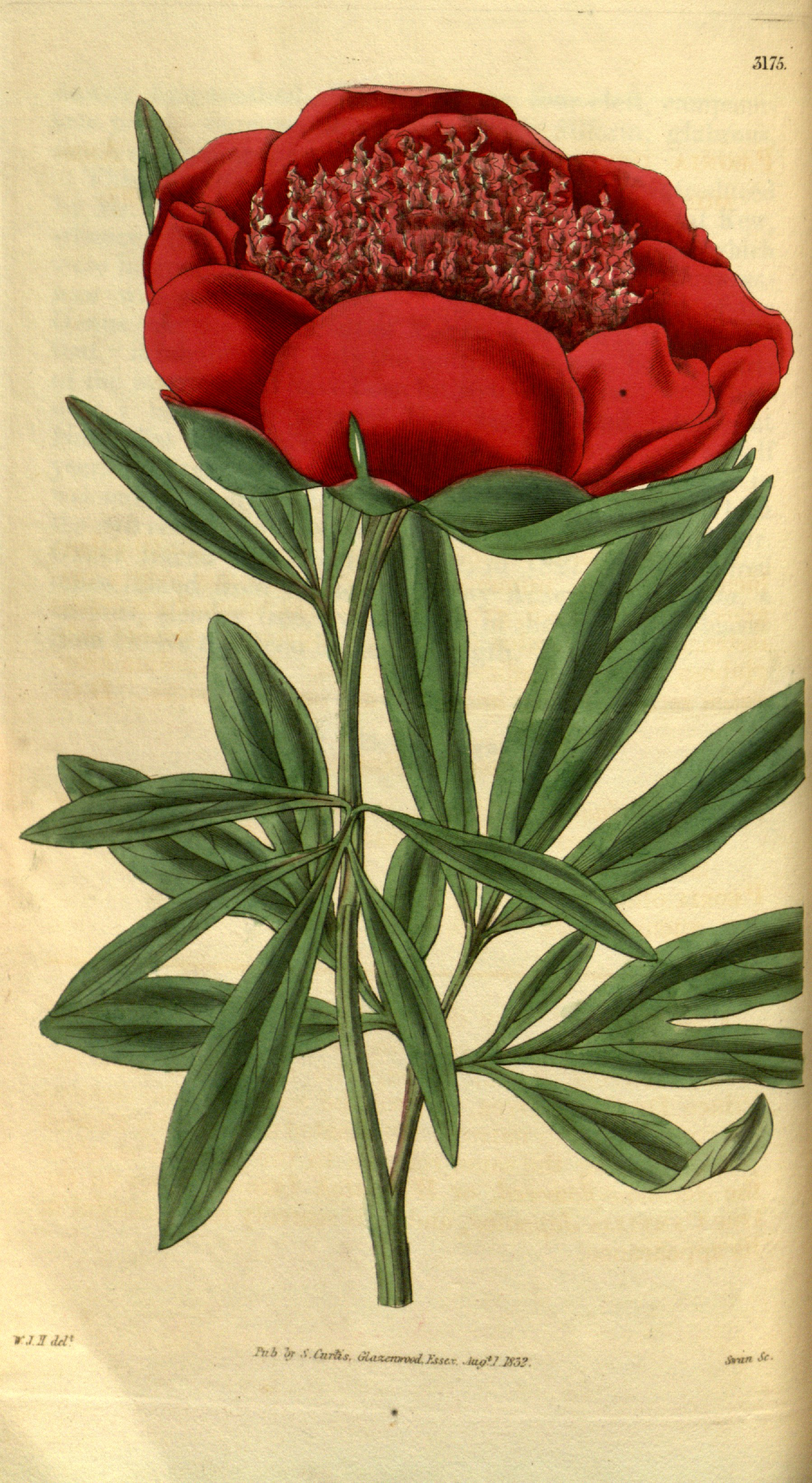 Paeonia officinalis 'Anemoniflora' (as Paeonia officinalis var. anemoniflora)